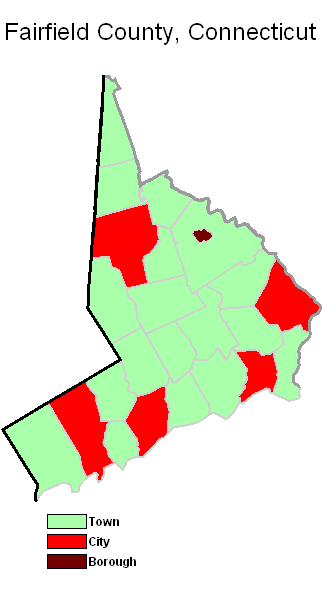 Some data used in this map is from the United States Census Bureau at